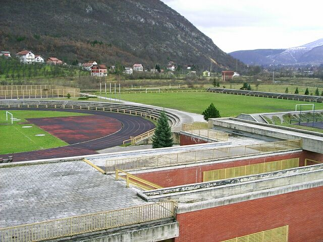 A stadium in the town of Drvar, Bosnia and Herzegovina